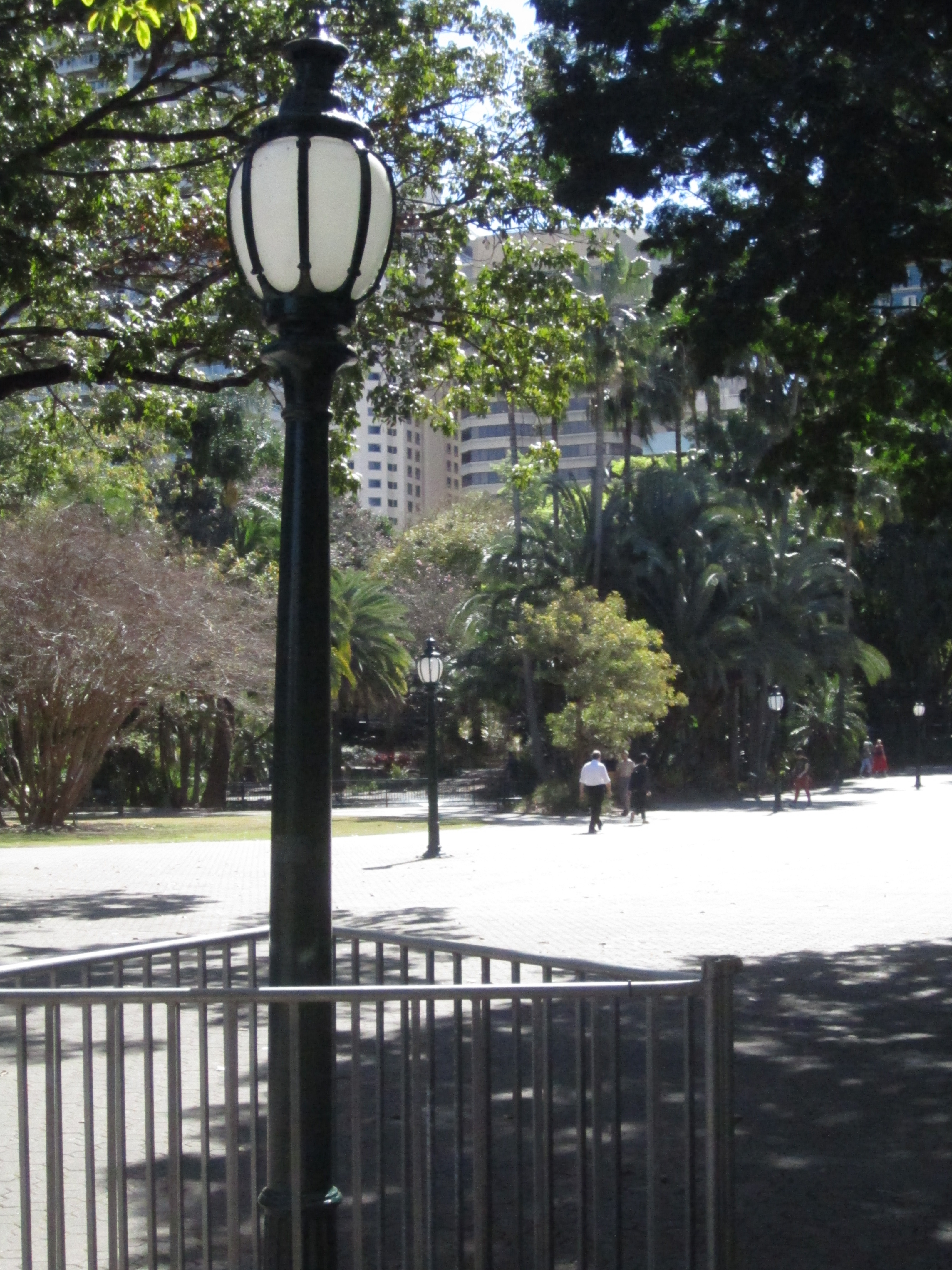 The making of this file was supported by Wikimedia Australia. To see other files made with WM-AU support, please see the category Supported by Wikimedia Australia. Lamp post in the Brisbane City Botanic Gardens.